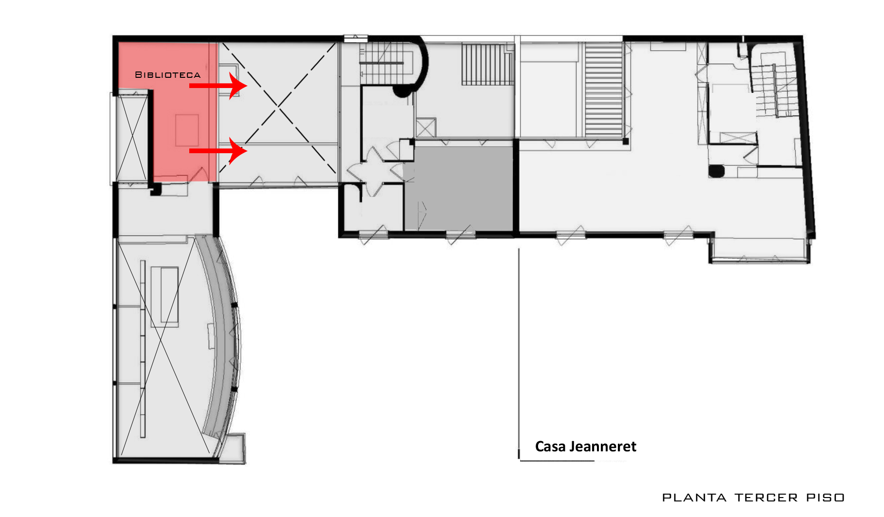 Biblioteca